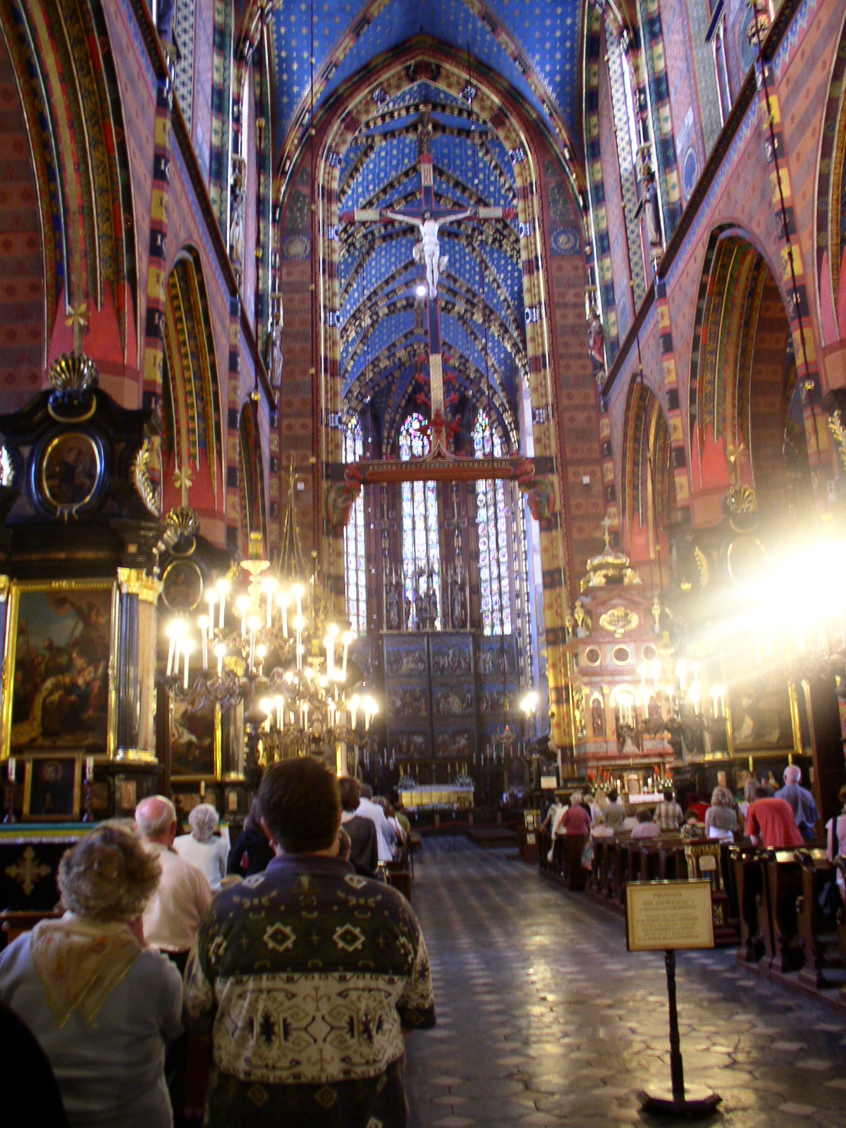 Interior of St. Mary's Basilica, Kraków, Poland. Photo by Sensor, 27 June 2005.